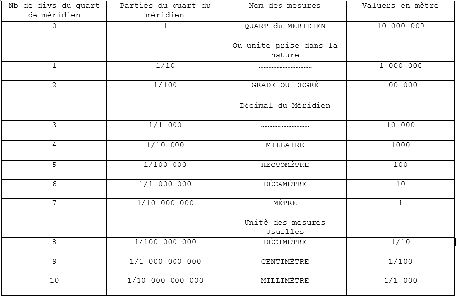 A new version of image for